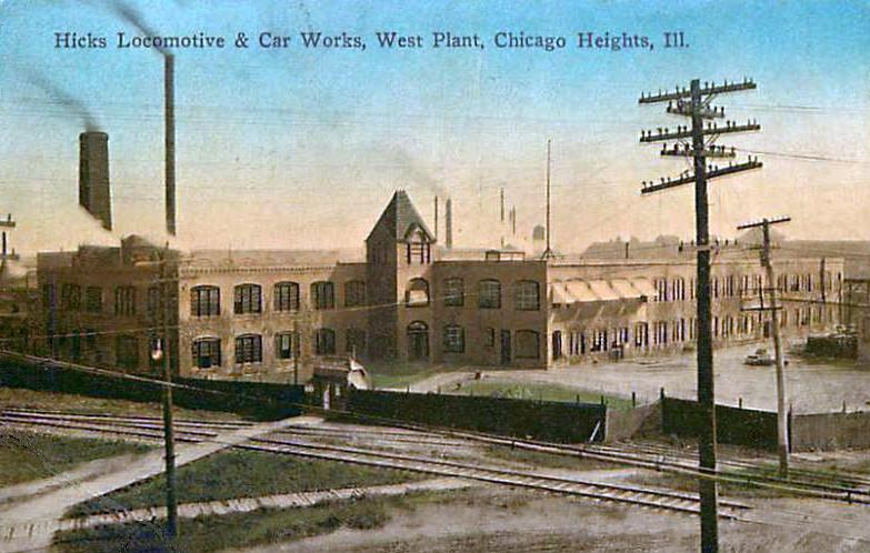 Postcard image of the Hicks Locomotive and Car Works factory (West plant) in Chicago Heights, Illinois.